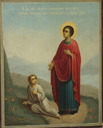 Saint Panteleimon Resurrects a Dead Man, Gavril Atanasov's Icon